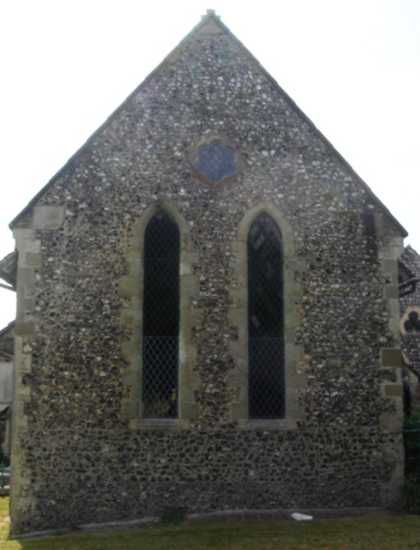 East end of St Nicolas' parish church, Portslade, City of Brighton and Hove, Sussex, showing the twin lancet windows and sexfoil above